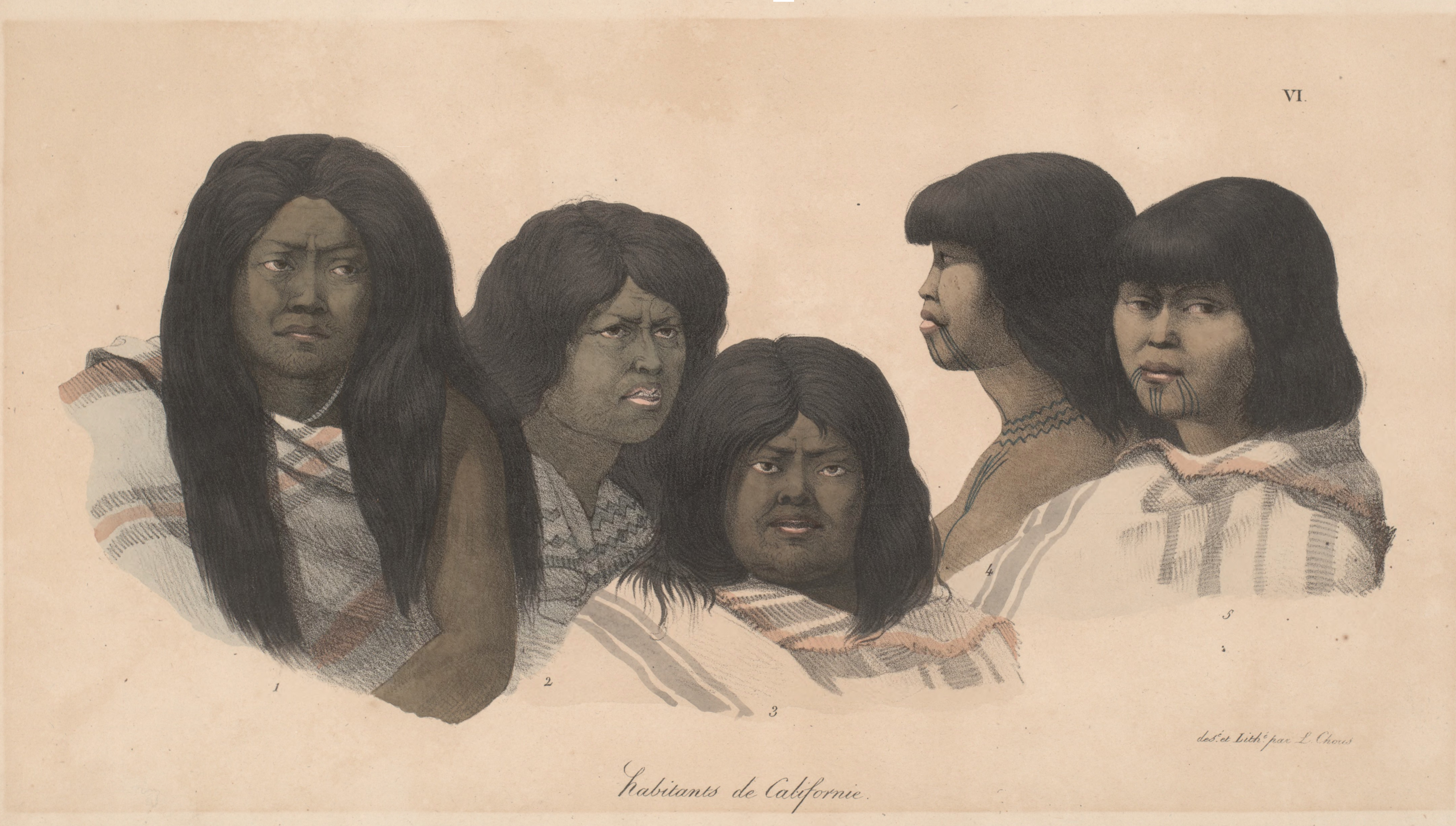 Portrait heads of Indians of California by Louis Choris